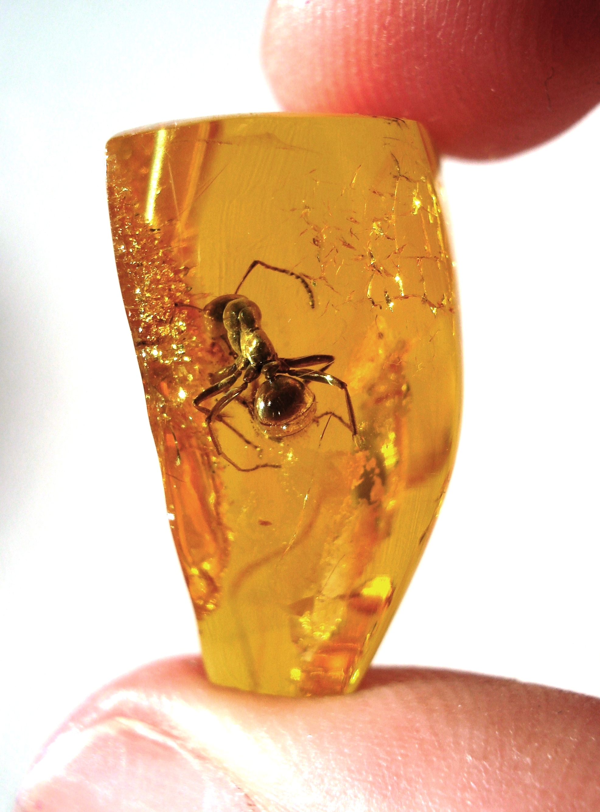 Baltic amber inclusions - 40-50 million years old - Ant (Hymenoptera, Apocrita, Vespoidea, Formicidae, ...?) About 7 mm long. The picture File:Baltic amber inclusions - Ant (Hymenoptera, Formicidae).JPG shows a close-up of the ant